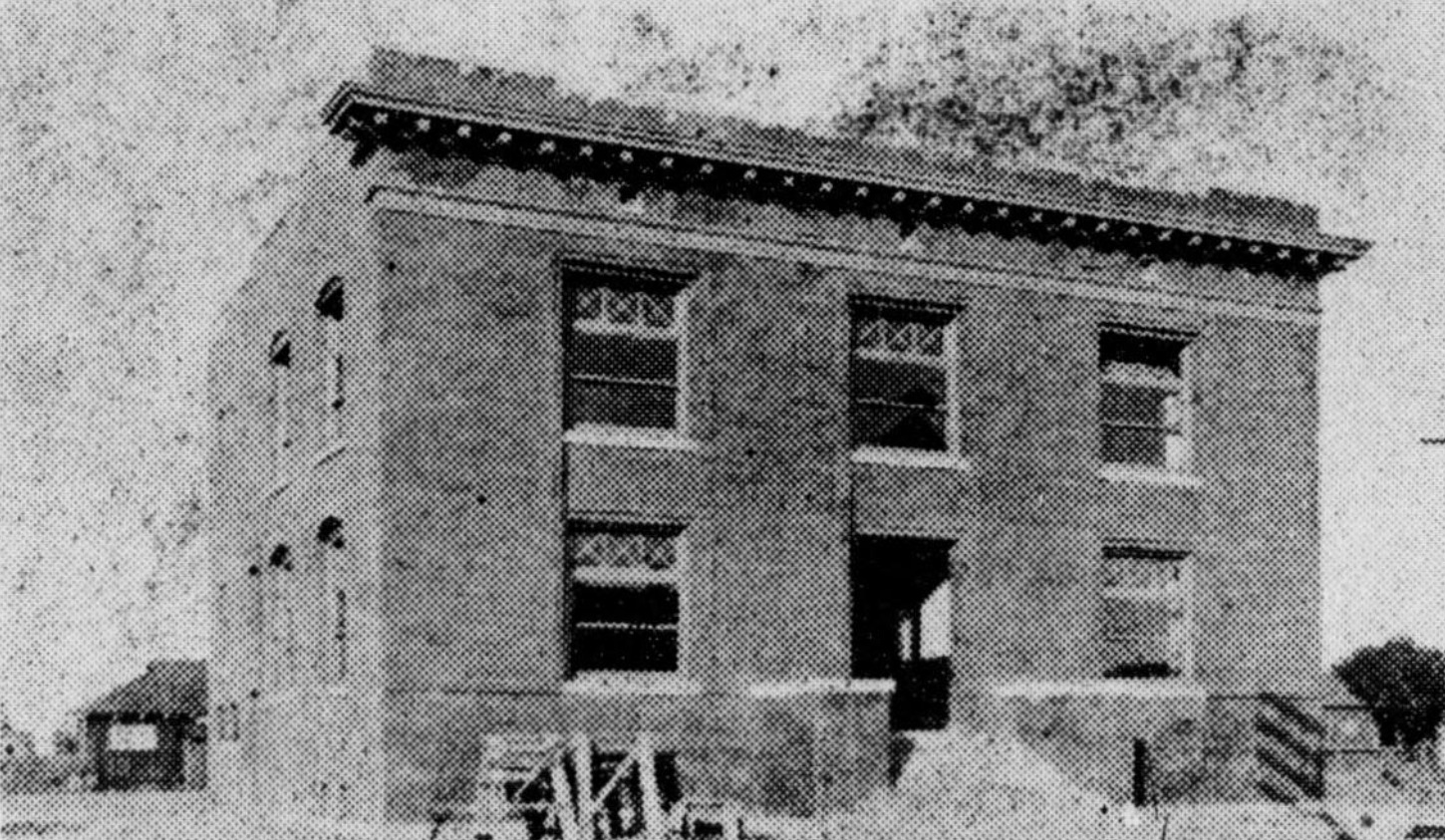 Newspaper photograph of the Watts, City Hall under construction in 1909.